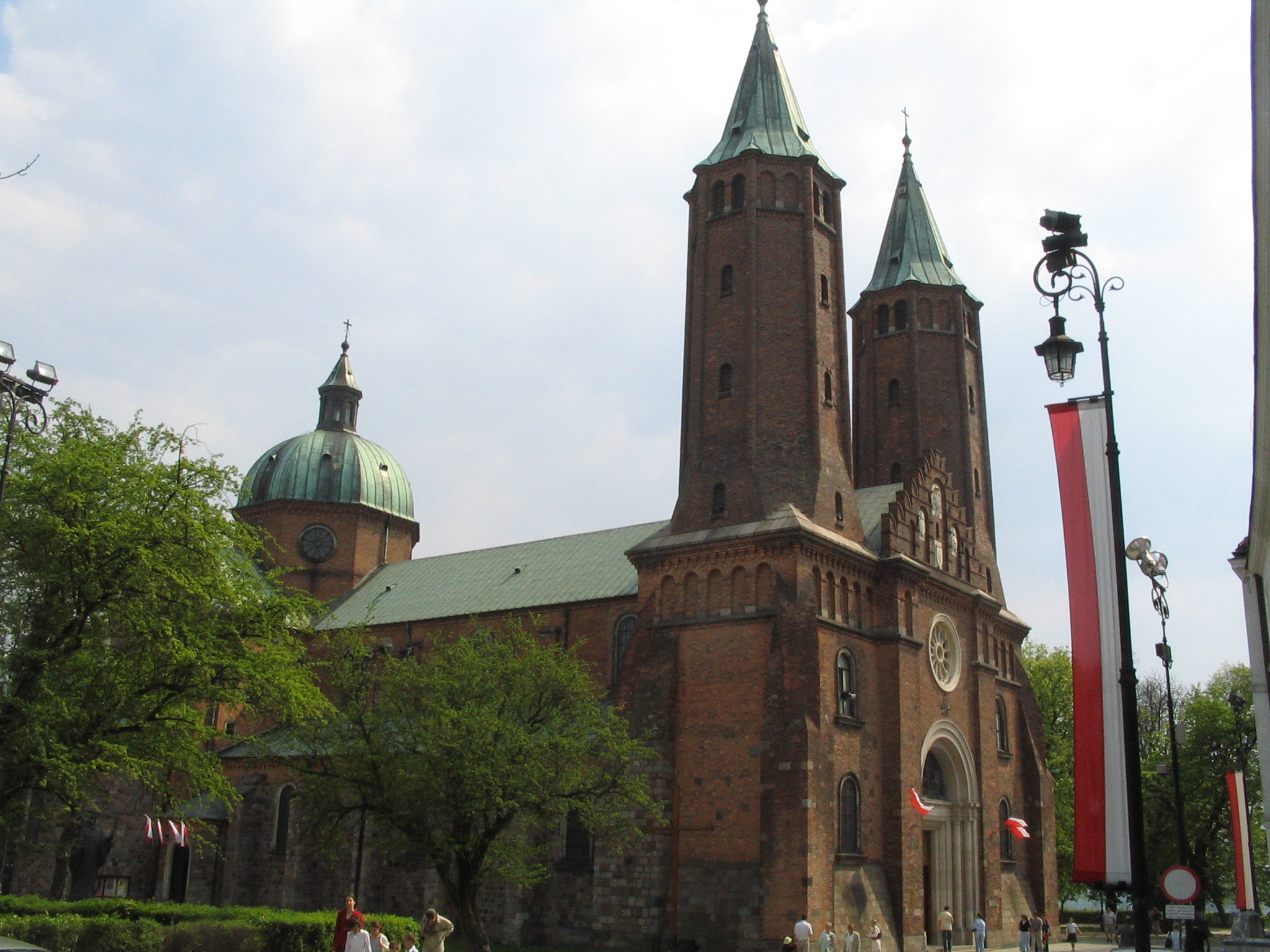 Cathedral in Płock, Poland